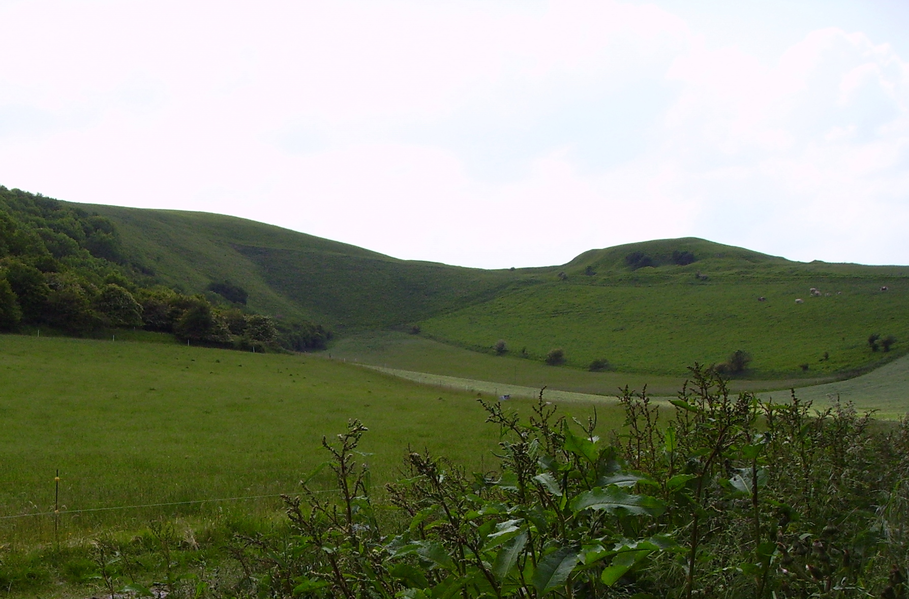 Photographer: User:Ballista